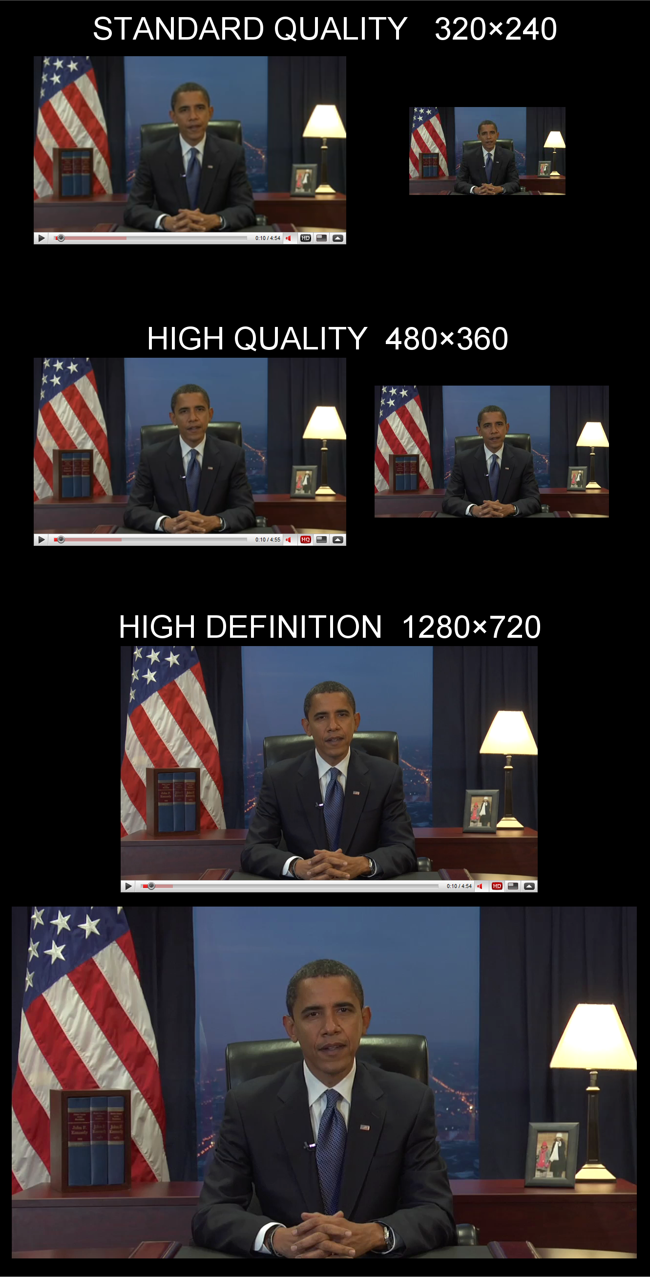 YouTube standard/high/HD screenshots from YouTube player and regular video player demonstrating how the videos are stretched from their actual resolution.